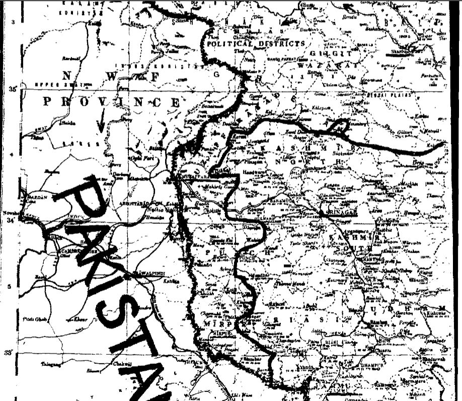 Screenshot of publicly available United Nations Document containing map showing the Cease Fire Line as Agreed Upon in the Karachi Agreement